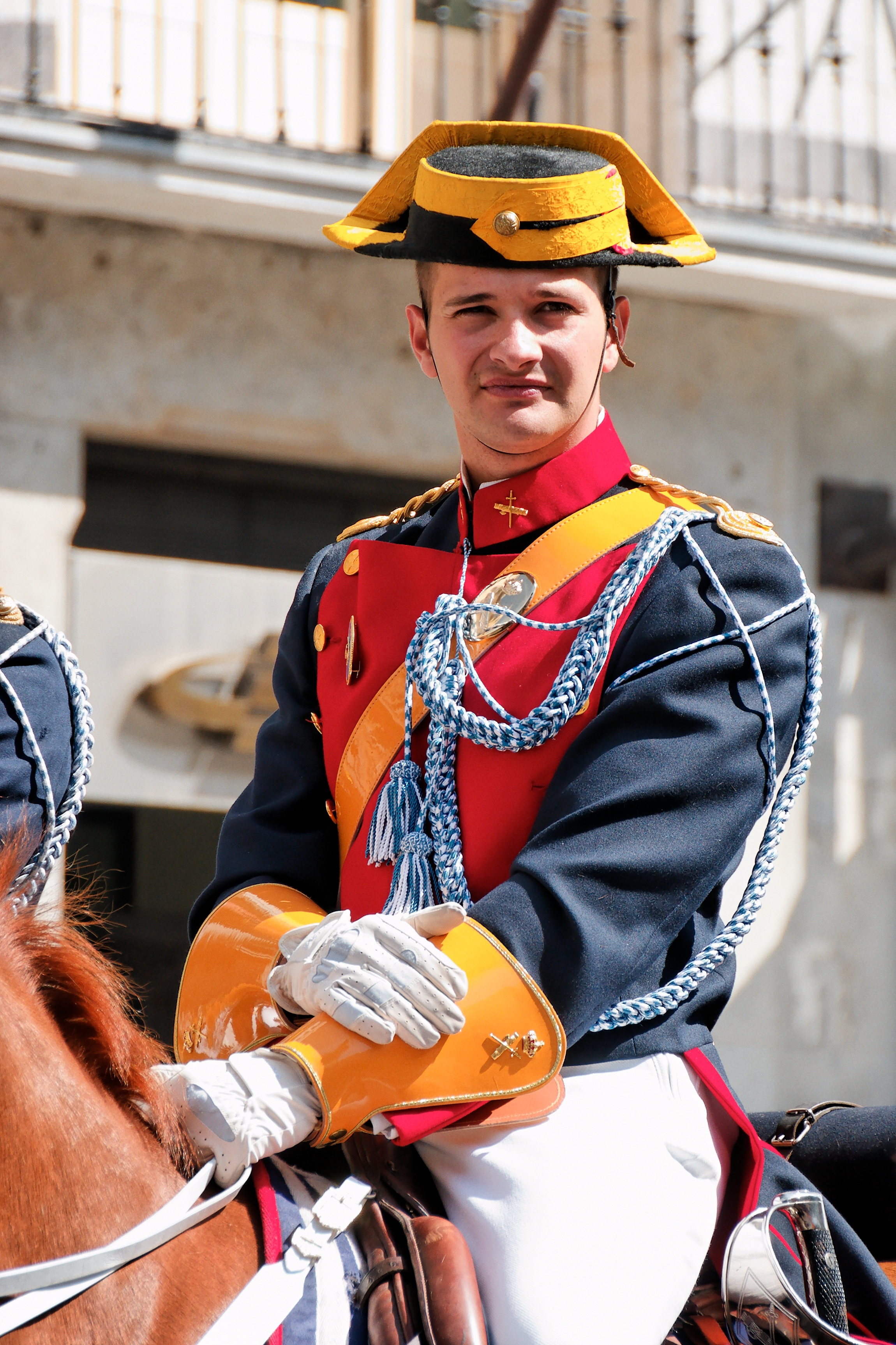 Horse guard of the Guardia Civil in dress uniform during a military parade for the Dos de Mayo celebrations. Calle Sevilla, Madrid.